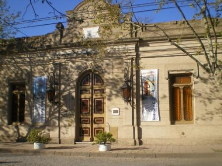 Coronel Pringles' Culture House (Casa de Cultura).